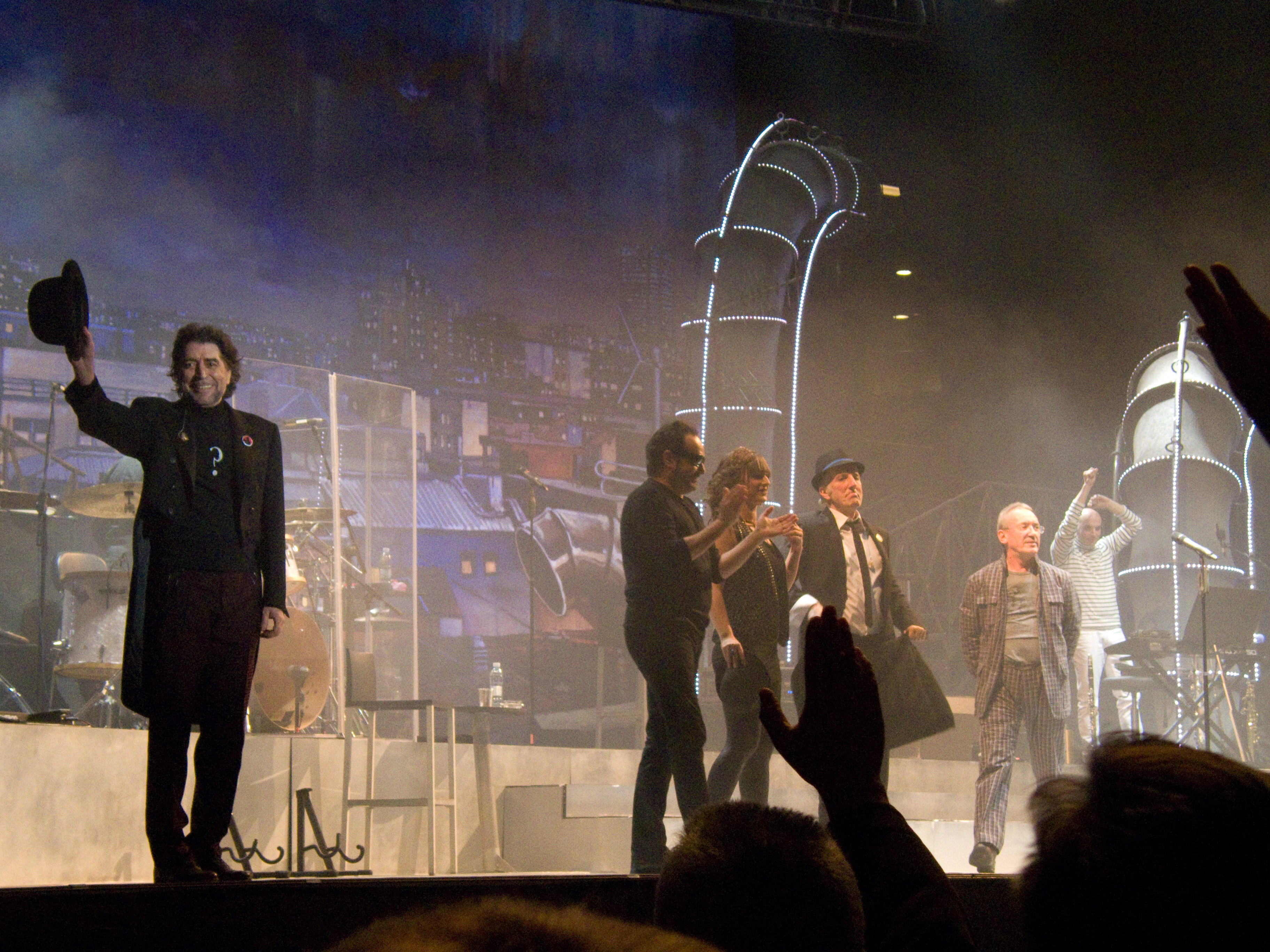 Joaquín Sabina during a concert of the "Vinagre y rosas" Tour in Madrid (Spain)